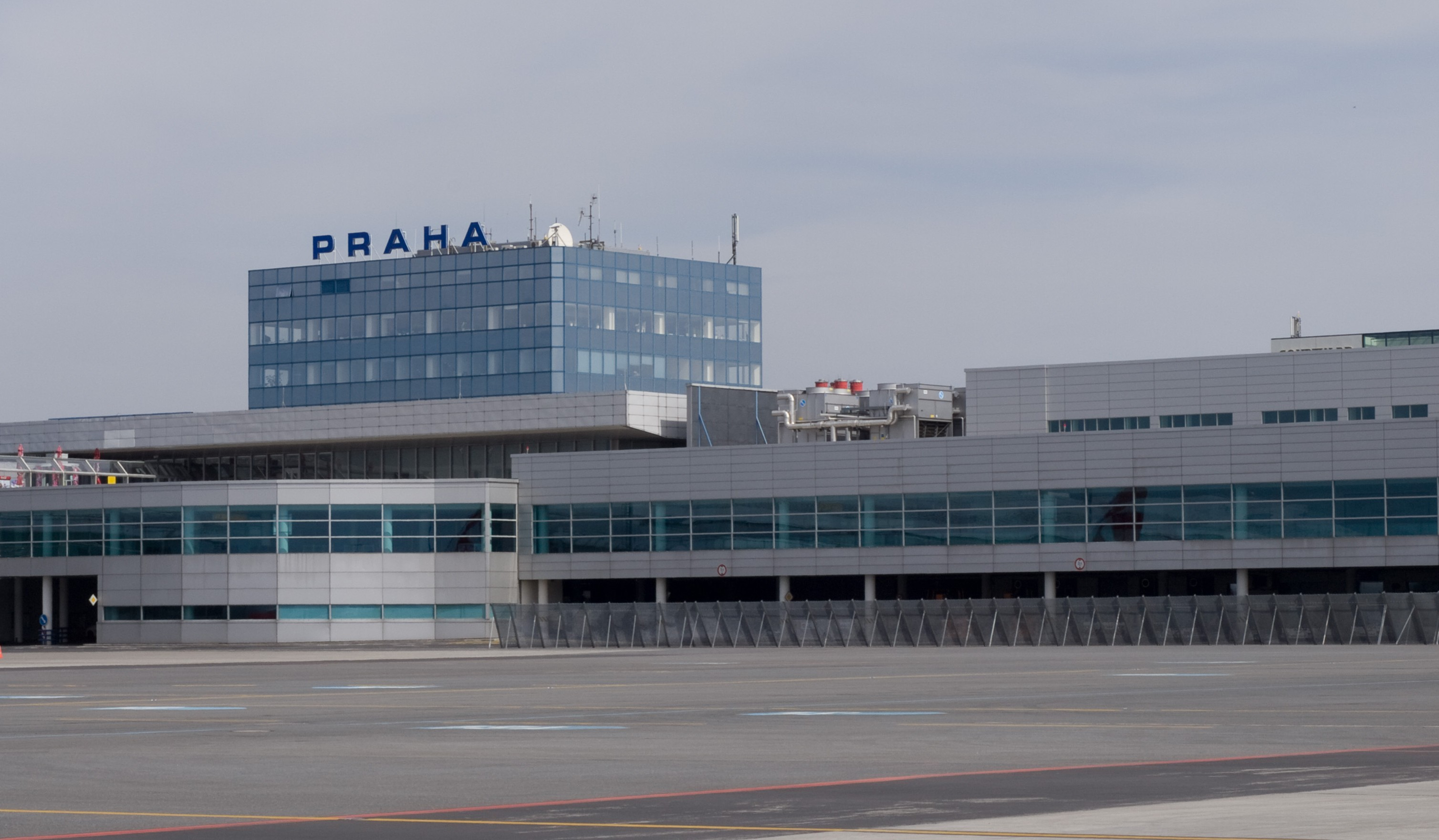 Ruzyně International airport